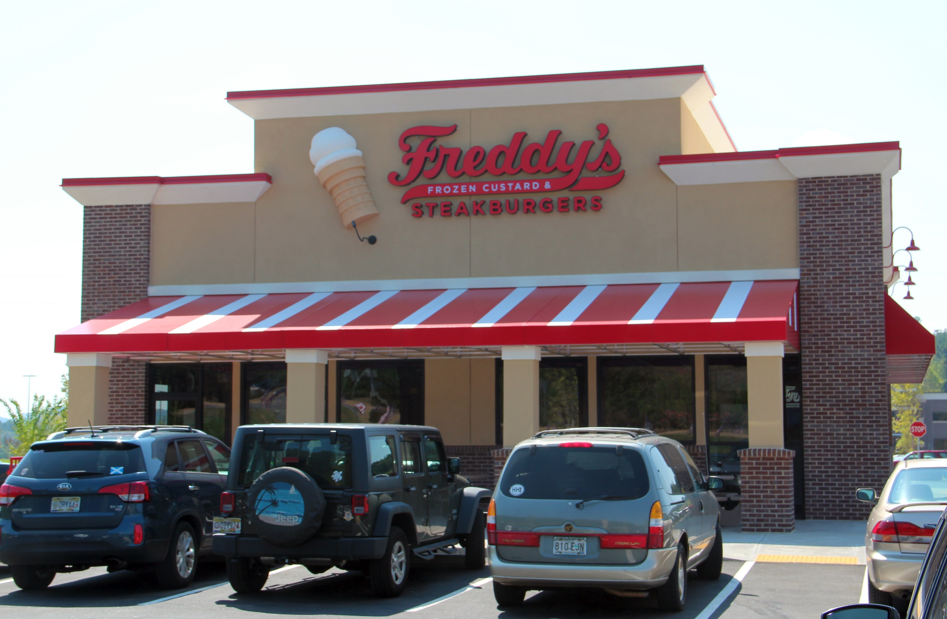 A Freddy's Frozen Custard & Steakburgers in Cartersville, Georgia